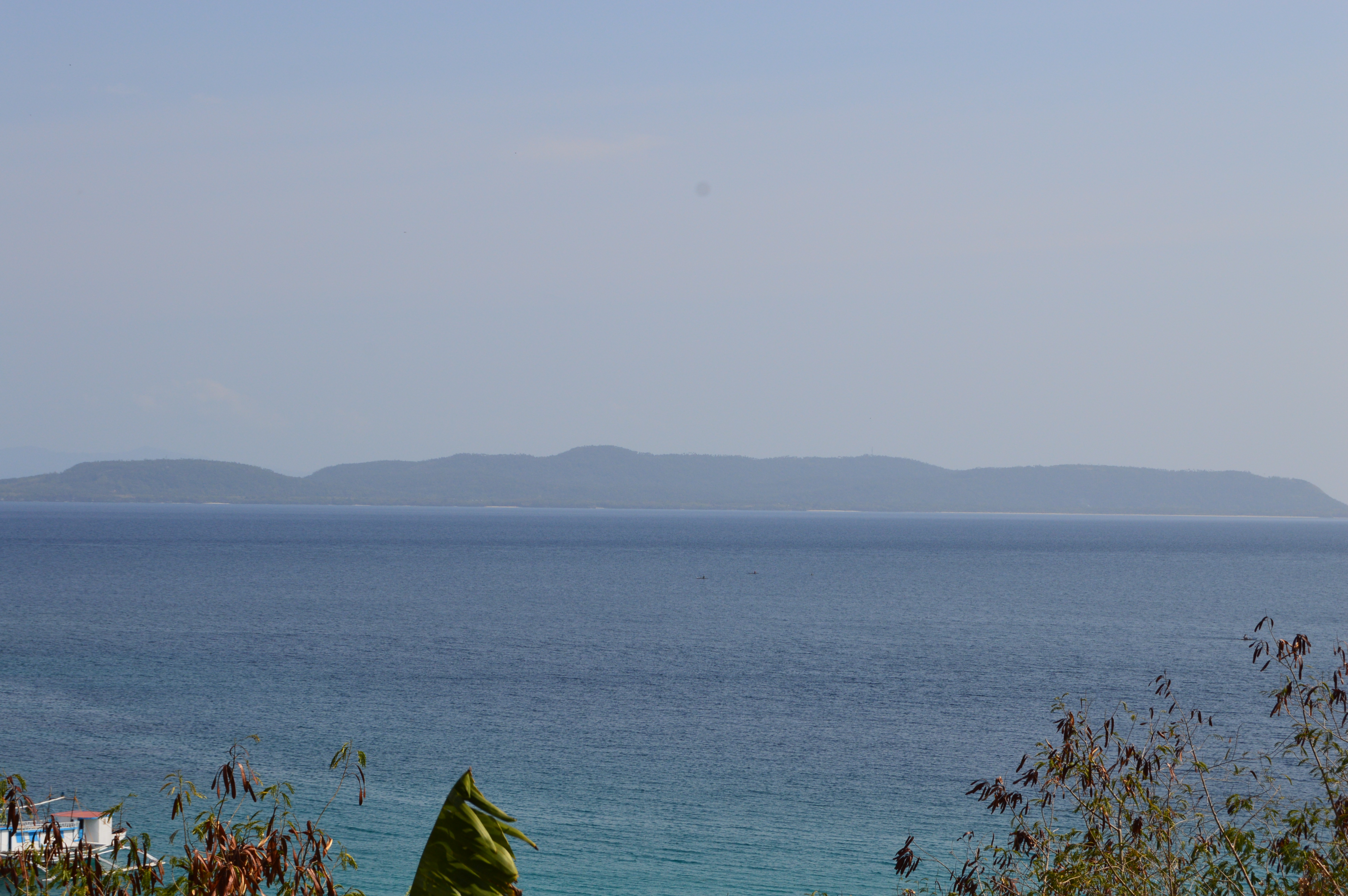 Simara Island, where Corcuera, Romblon is located, as seen from Barangay Togong, Banton, Romblon.